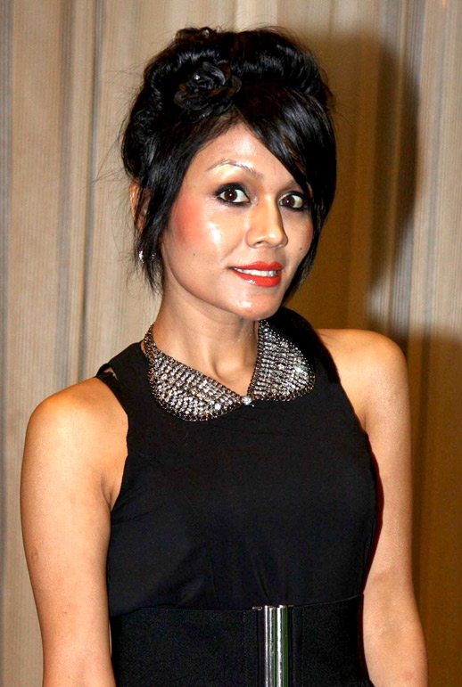 Sonu Kakkar at NBC award 2013